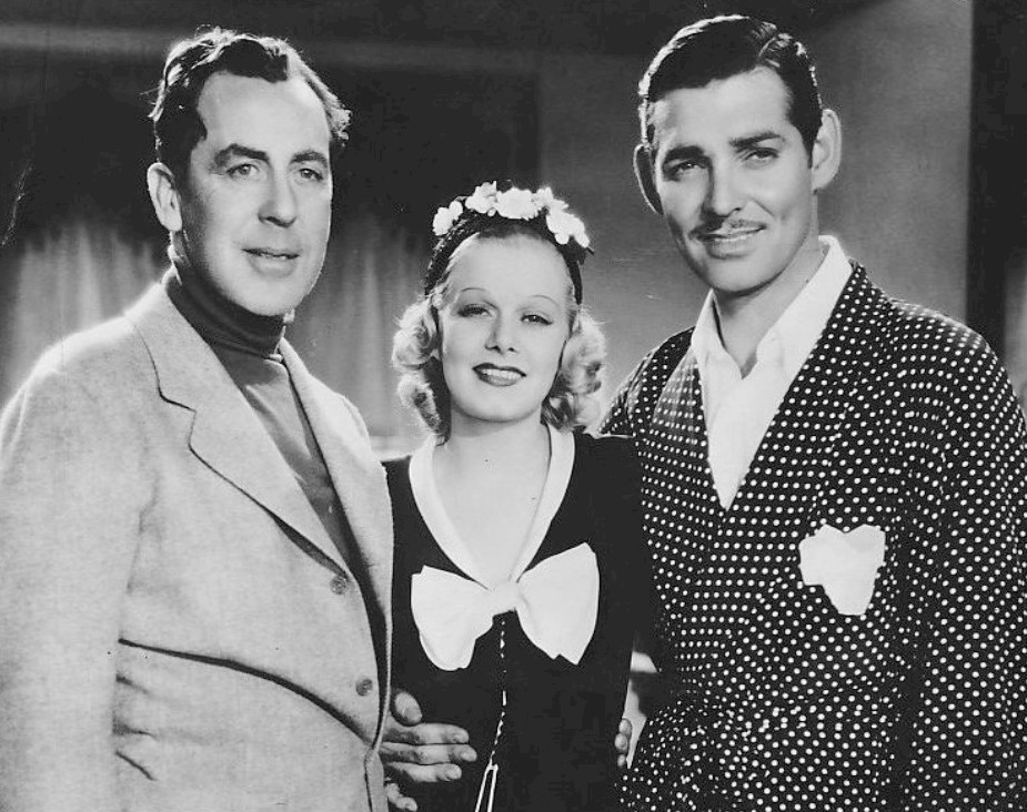 Photo of director Jack Conway, Jean Harlow and Clark Gable on the set of the American film Saratoga (1937). This was taken shortly before Jean Harlow's final illness; it's probably one of the last photos taken of her. The photo was released just after her death.